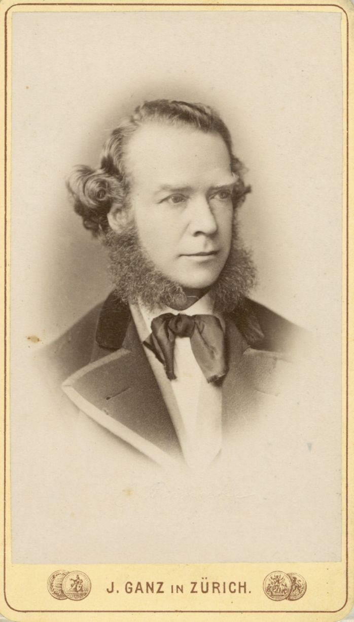 Artist: J. Ganz Date/place: Unknown date/Zürich Subject: Carl Reinecke Medium: Photographic posetiv Notes: German composer. Born in Altona 23.06. 1824 - dead in Leipzig 10.03. 1910 Original belongs to the Archives at [#//bergenbibliotek.no/digitale-samlinger” Bergen Public Library]